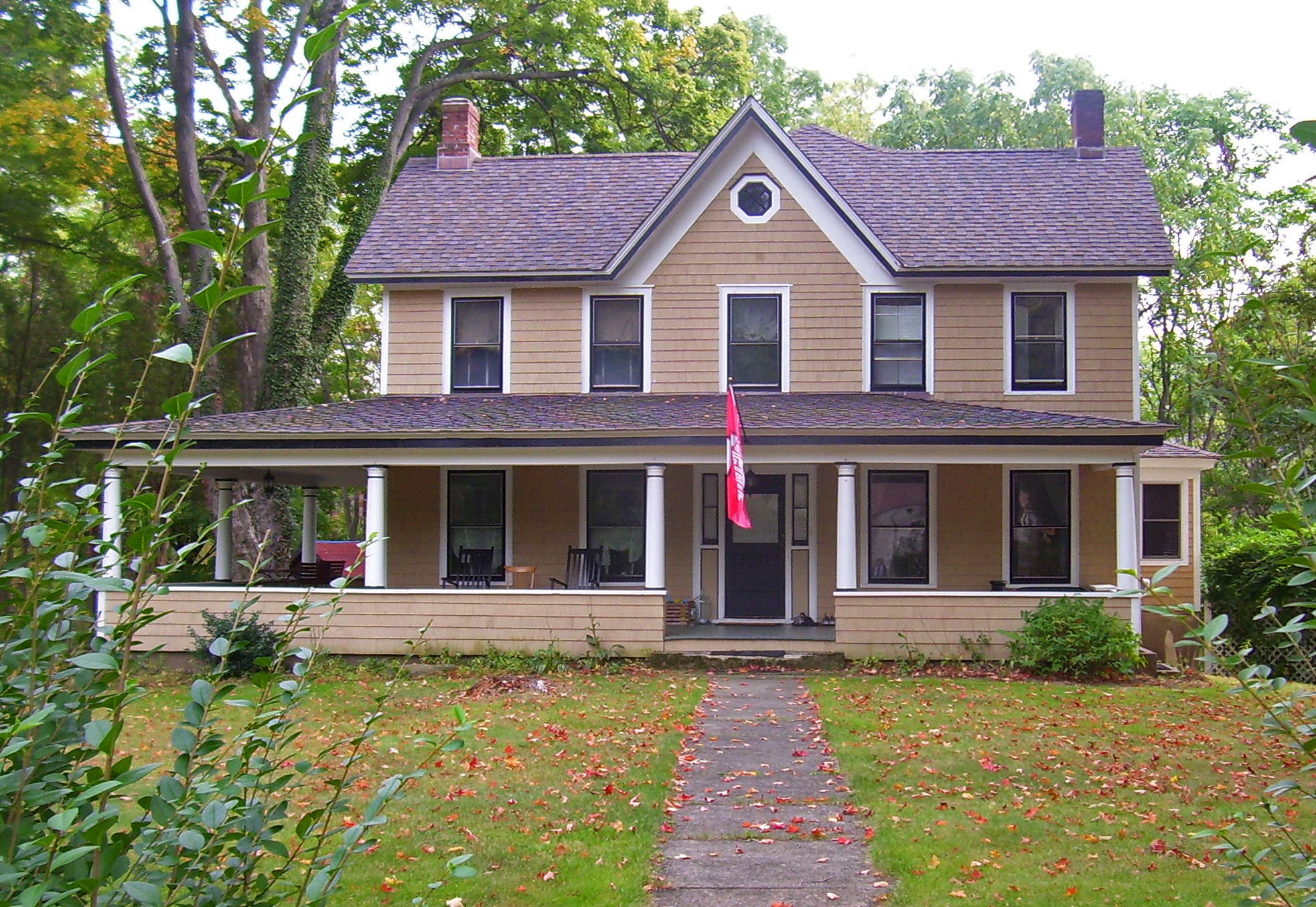 Patrikc Piggot House in Cornwall, NY, USA